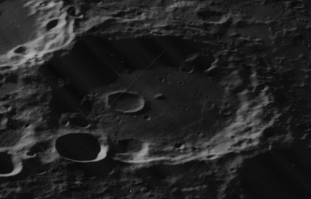 Oblique view of Stefan, on the far side of the moon, facing west.